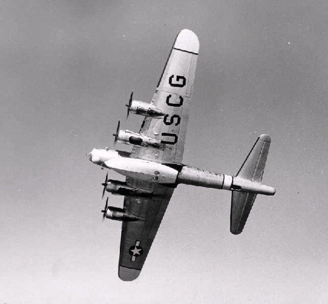 A U.S. Coast Guard Boeing PB-1G Fortress carrying a lifeboat in 1948. The USCG used the PB-1G from 1945 to 1959.